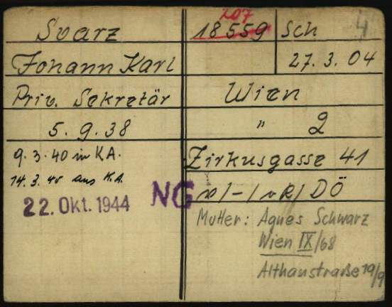 Registration card of Hans Schwarz as a prisoner at Dachau Nazi Concentration Camp. Stamped date next to "NG" is the date of transfer to Neuengamme Concentration Camp.